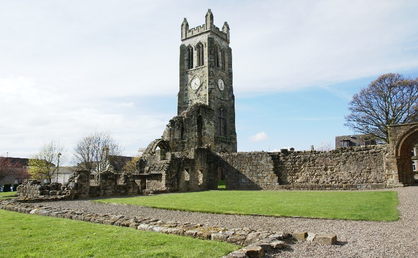 Kilwinning Abbey, Kilwinning, Scotland